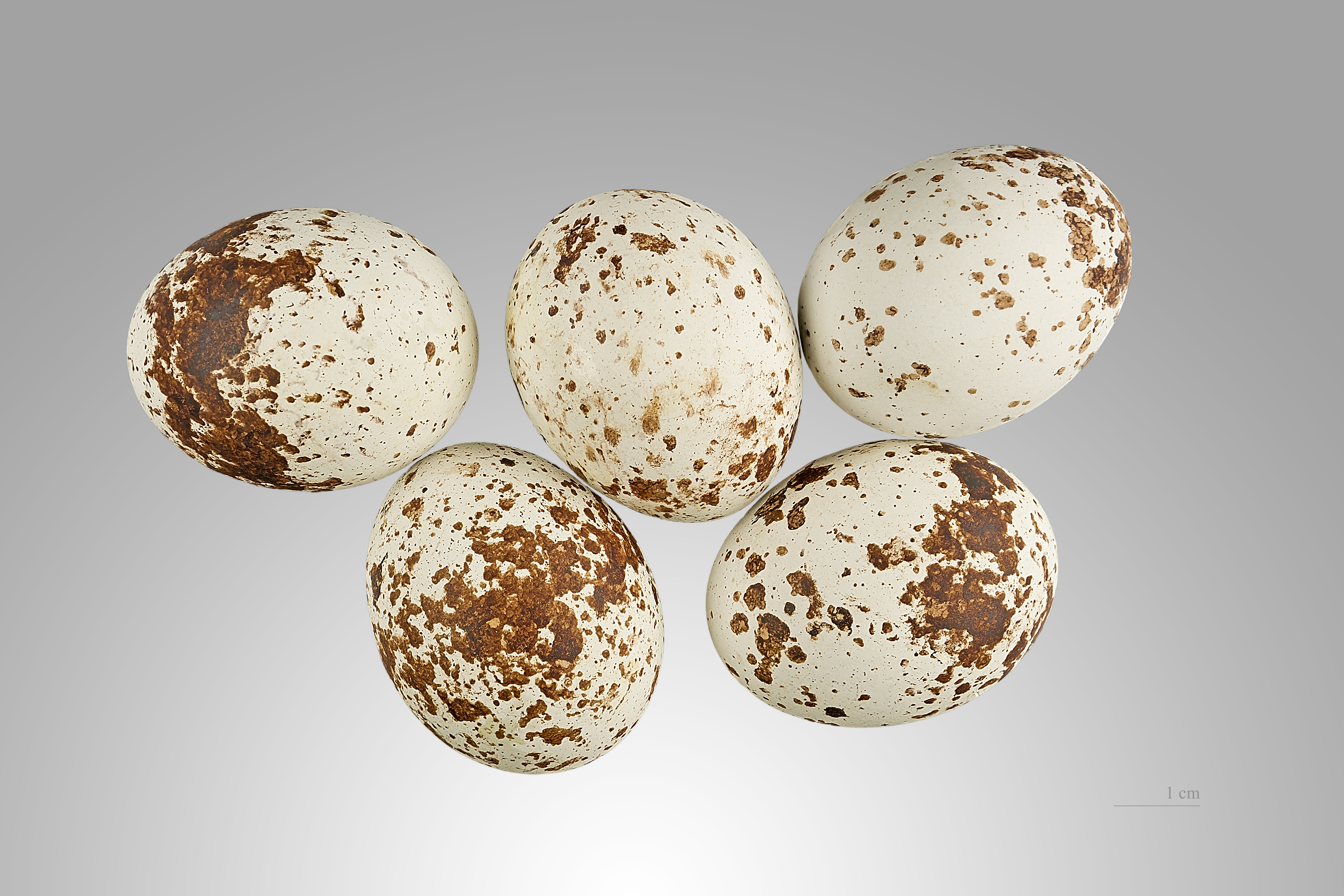 Egg of Eurasian Sparrowhawk. Collection of Category:René de Naurois / Jacques Perrin de Brichambaut.